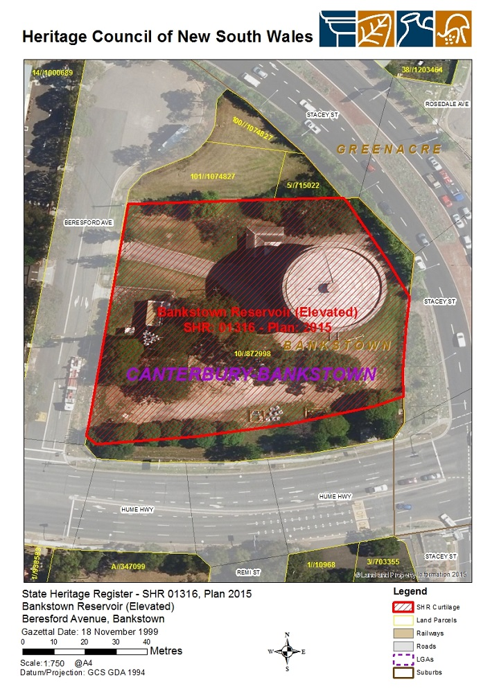 Bankstown Reservoir: SHR Plan 2015